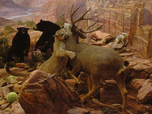 Cougar hunting